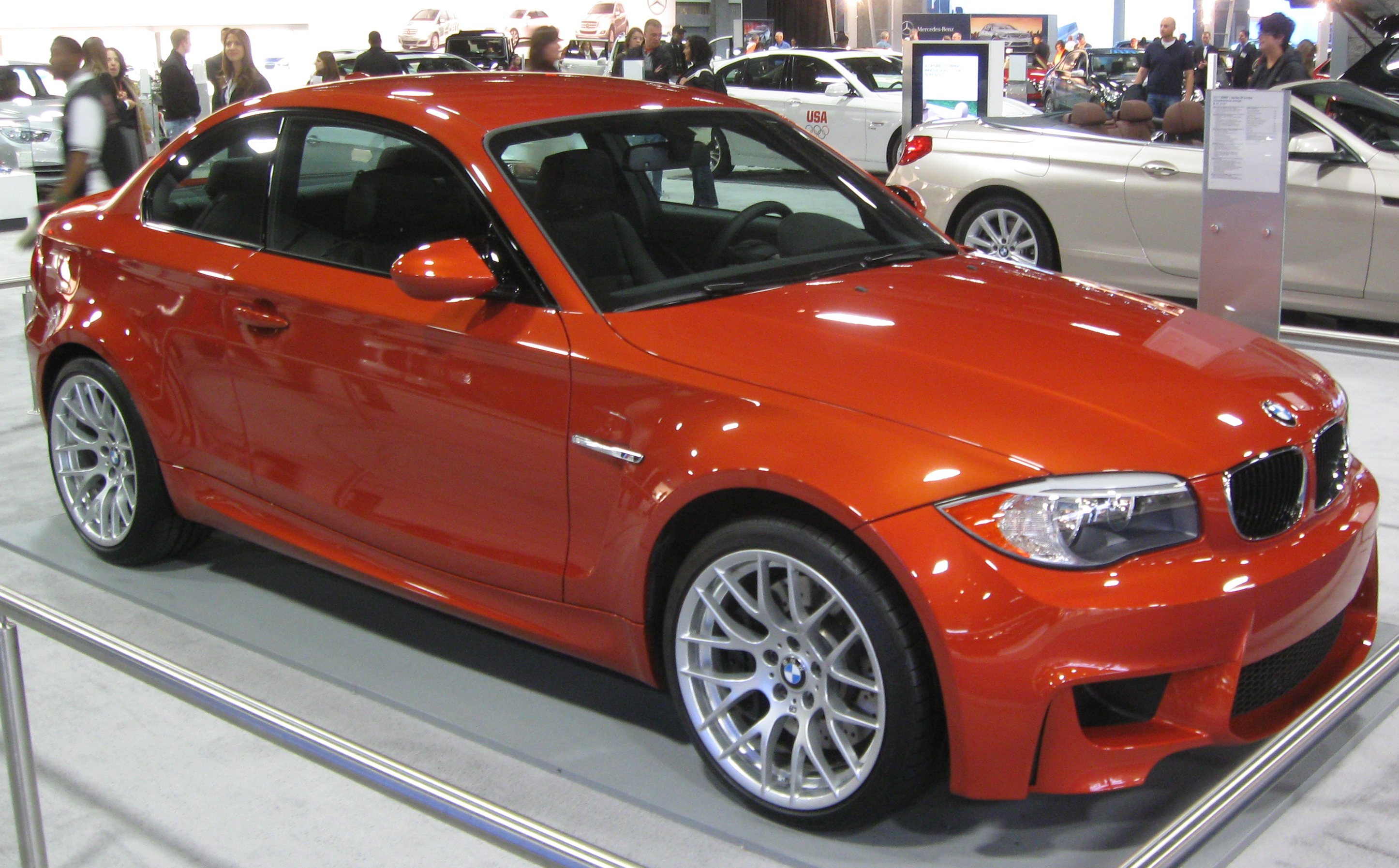 BMW 1-Series M coupe photographed at the 2011 Washington (D.C.) Auto Show.